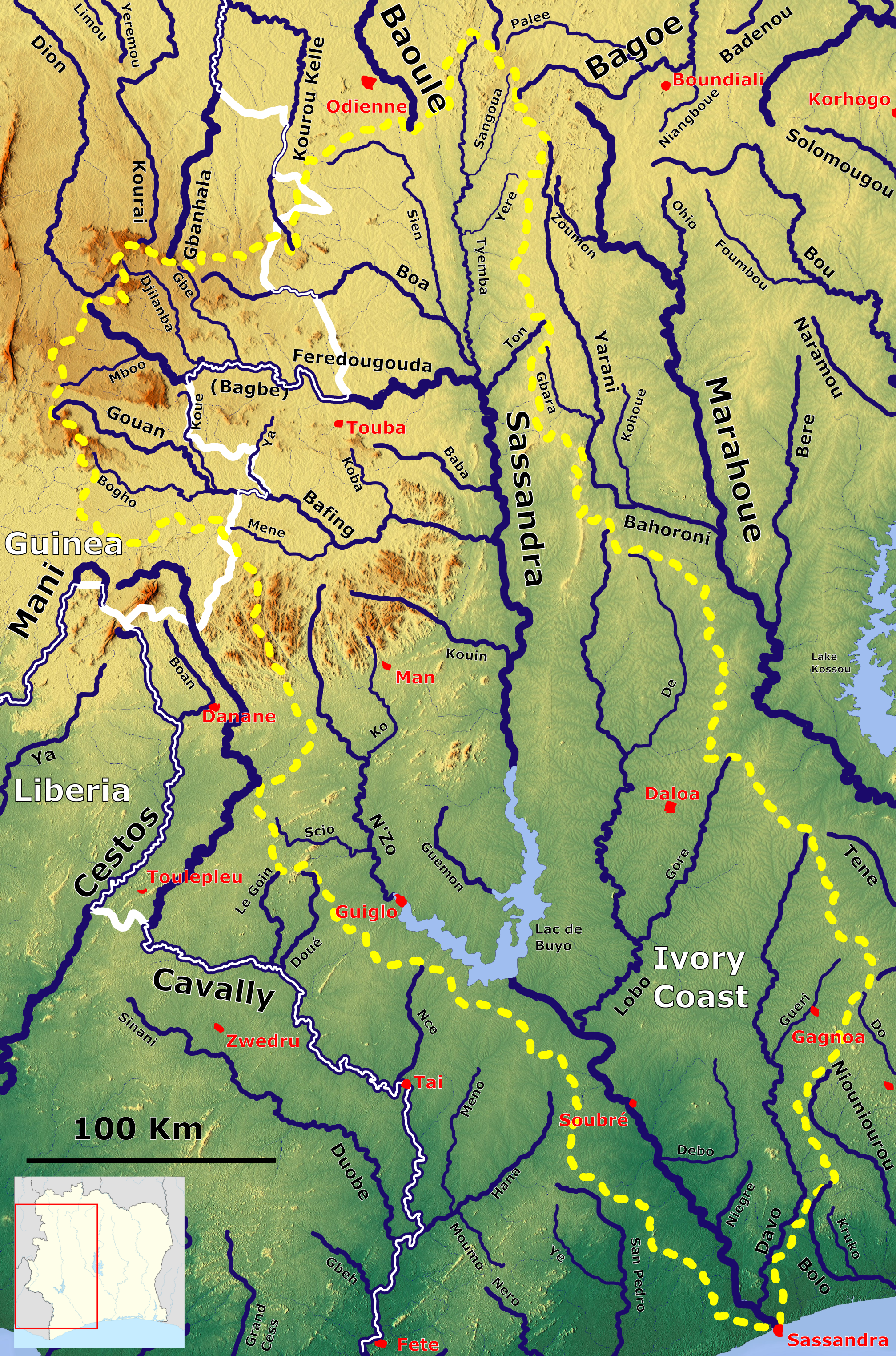 The Sassandra river system OSM